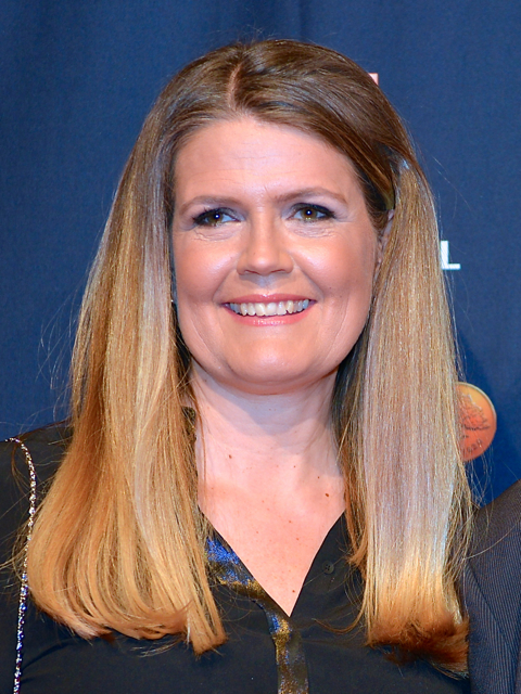 Marie Lehmann at the Swedish Sports Gala at the Ericsson Globe in Stockholm, January13, 2014.